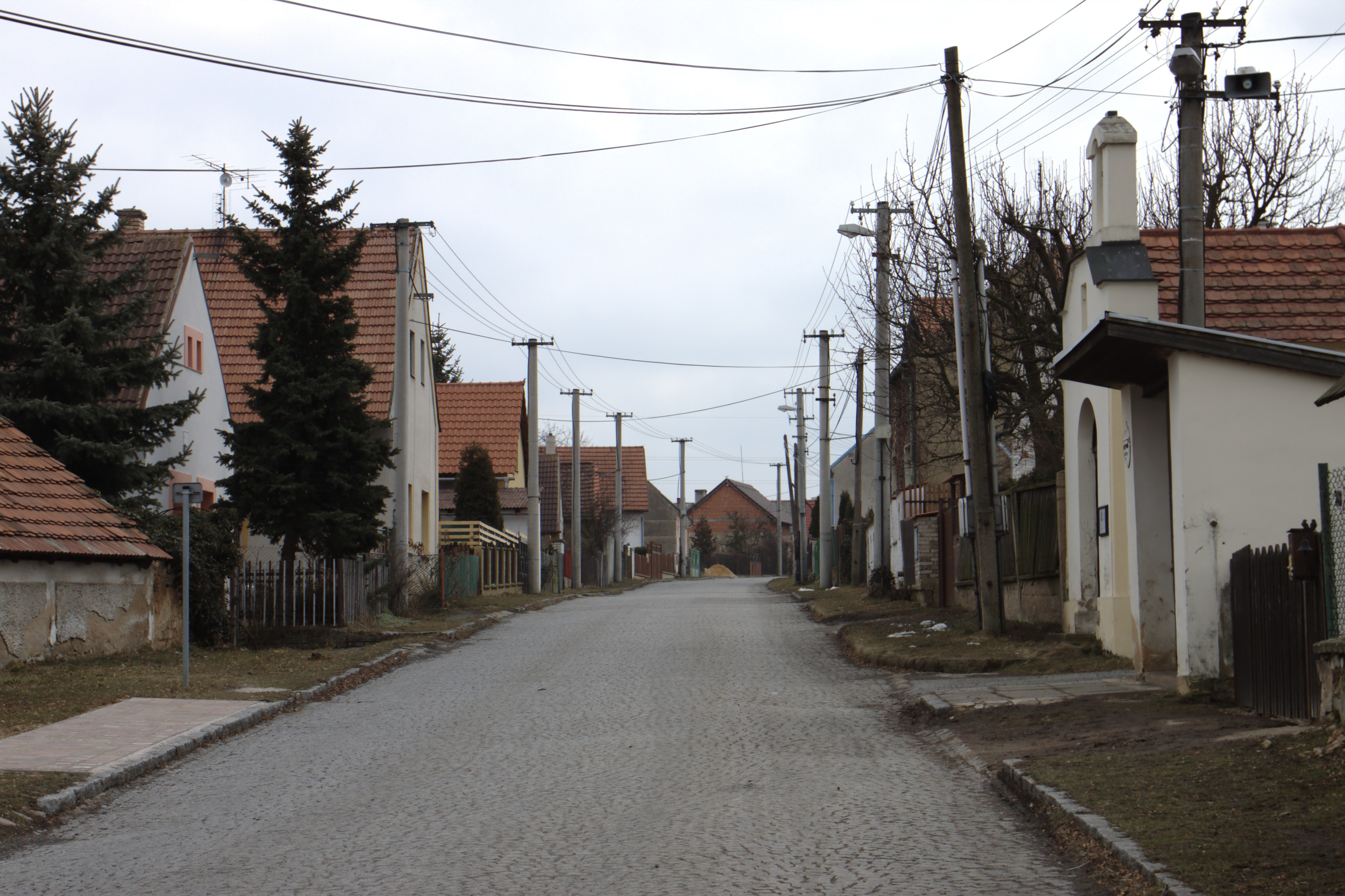 Village of Nouzov in Rakovník District, Central Bohemian Region, CZ